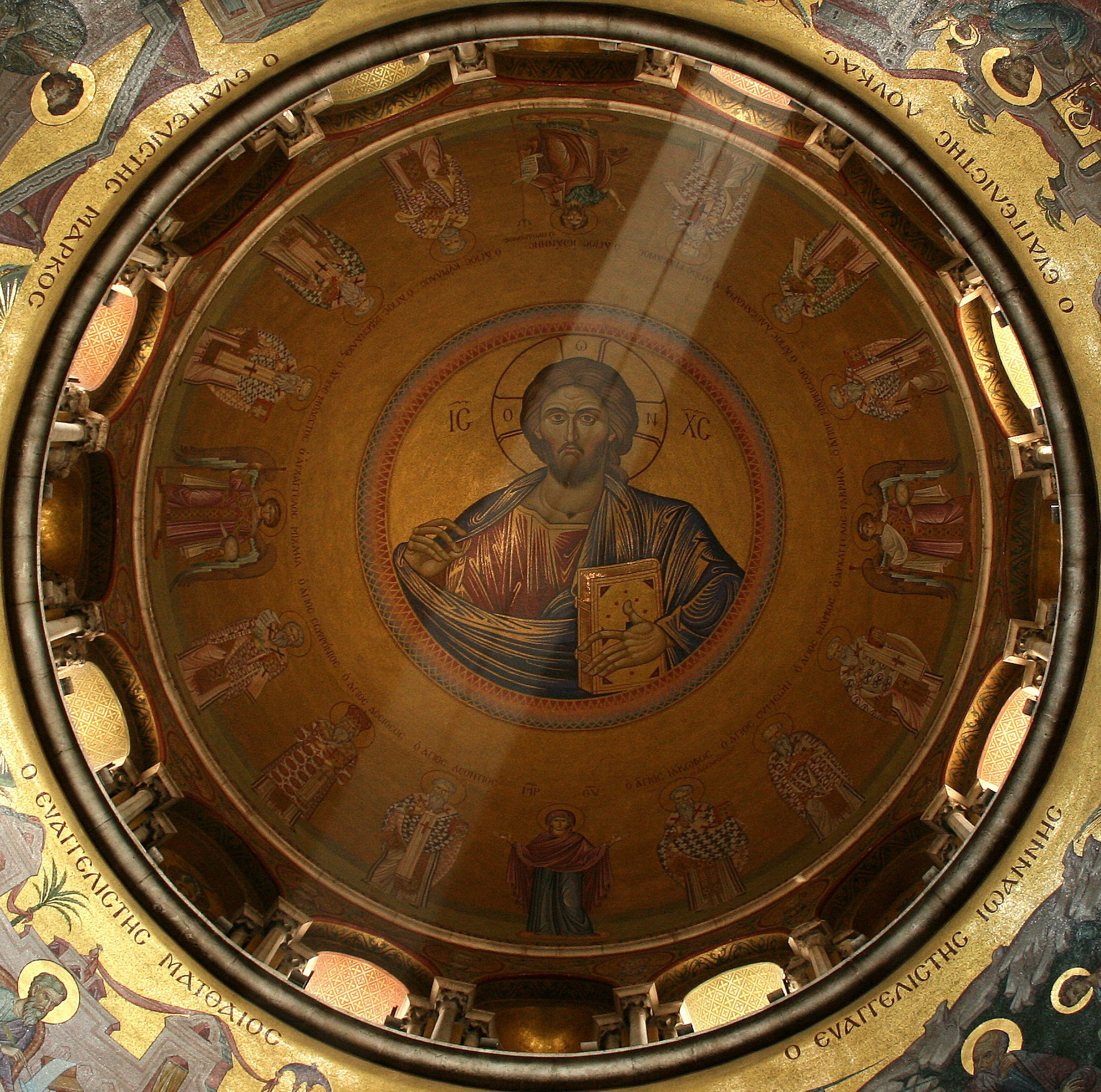 Catholicon, Christ's mosaic in the dome of the Church of the Holy Sepulchre, Jerusalem